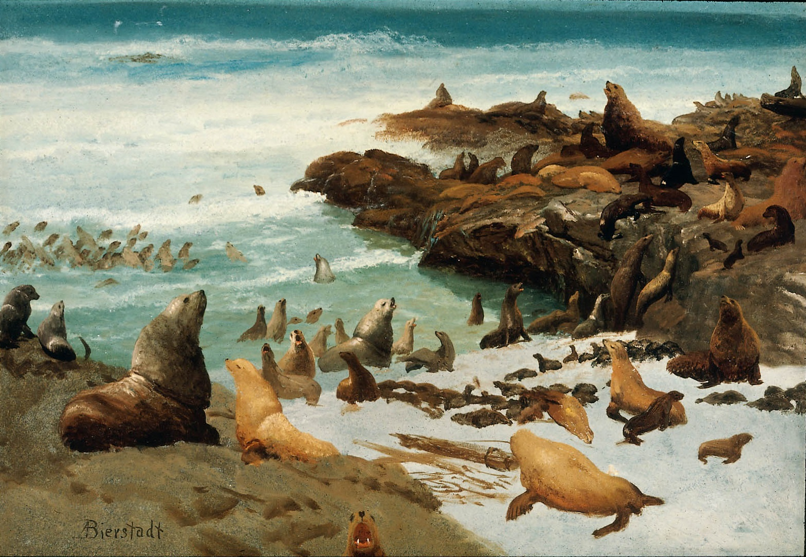 Farallon Islands, California